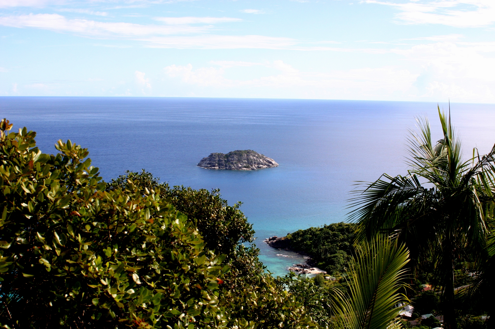 A view from where Jellyfish trees grow. The hike there was really hard. You could see a Jellyfish tree in the left lower corner Photograped by Brocken Inaglory at Mahe Seychelles